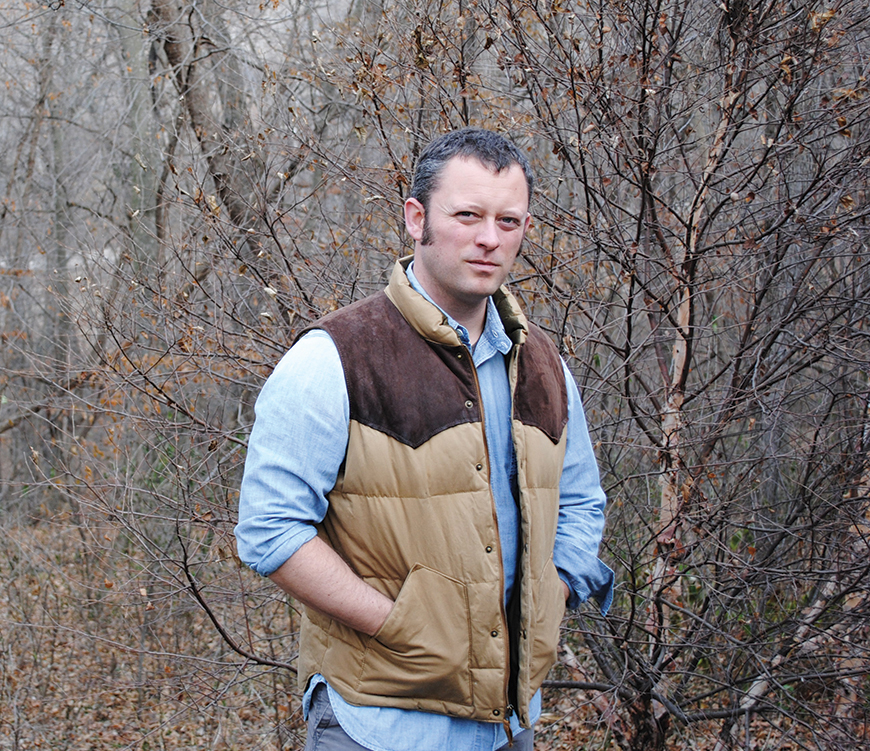 Author photo taken in Minnesota